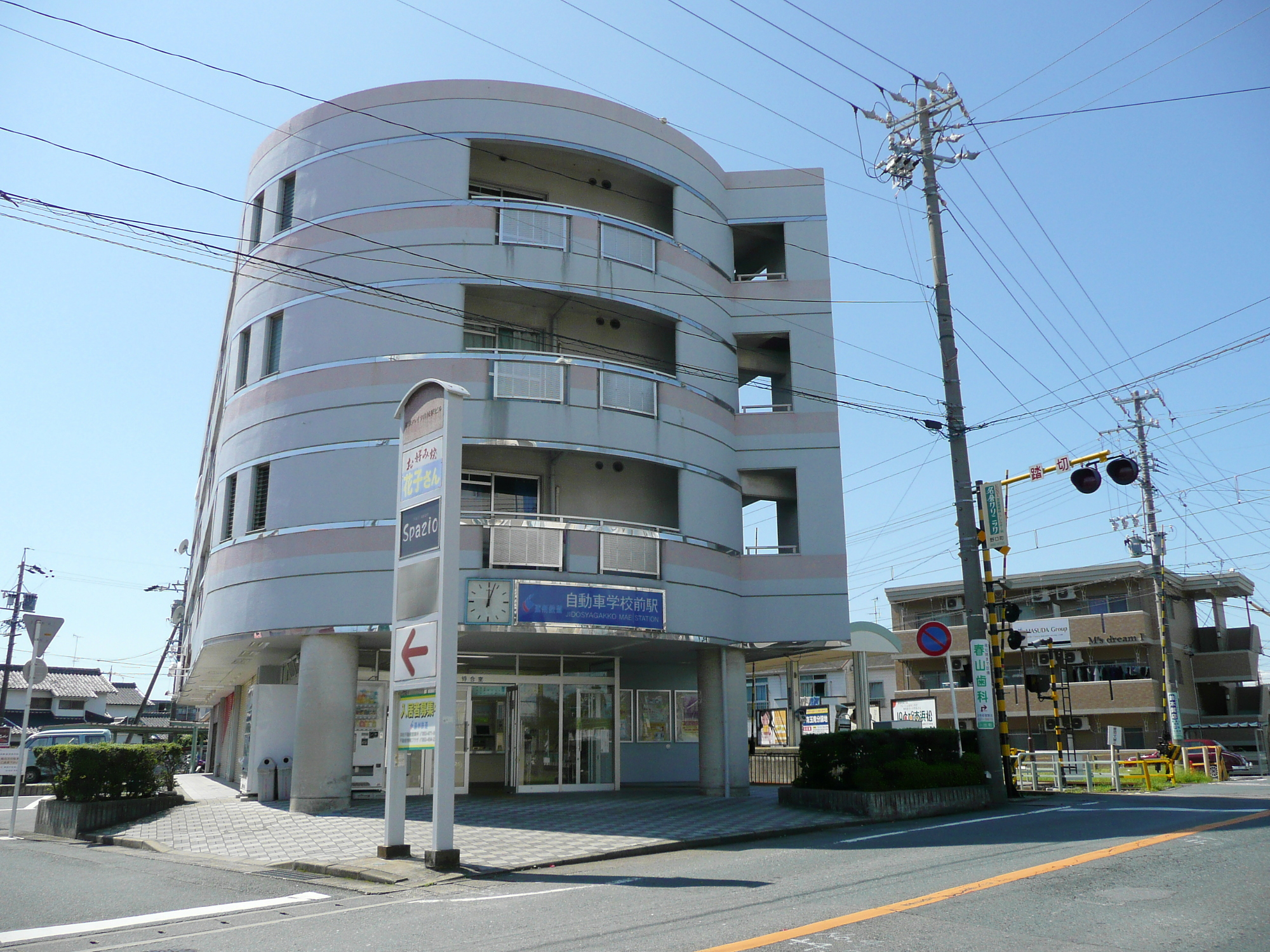 JIDOSHAGAKKO MAE Station, Enshu Railway Line.